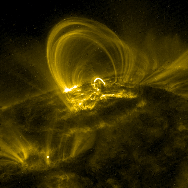 Example of solar coronal loops observed by the Transition Region And Coronal Explorer (TRACE), 171 Å filter. These loops have a temperature of approximately 106 K. These loops contrast greatly with the cool chromosphere below.